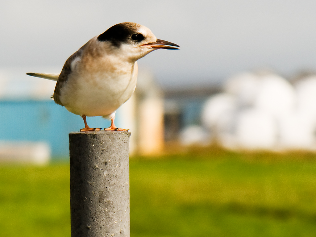 Juvenile Arctic Tern sitting on a post enjoying the sunshine. Iceland.